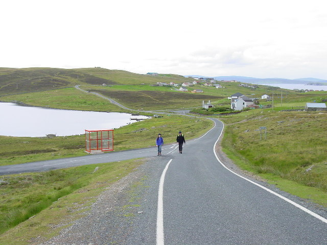 Walking across Whalsay on the road from Symbister to Isbister. This view is taken looking SW from the turning to Huxter. Loch of Huxter is on the left.